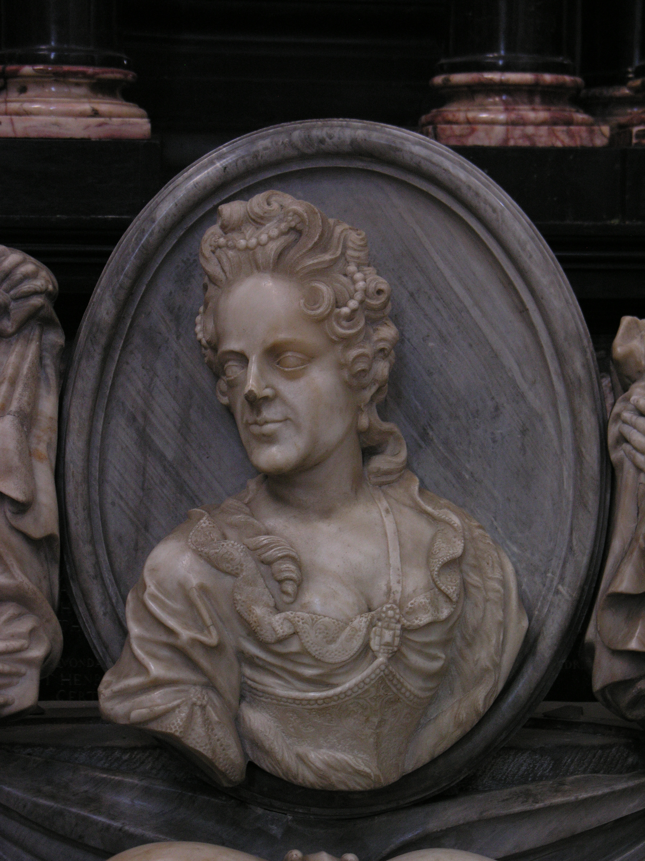 Nagrobek Karoliny, ostatniej z Piastów, w Trzebnicy